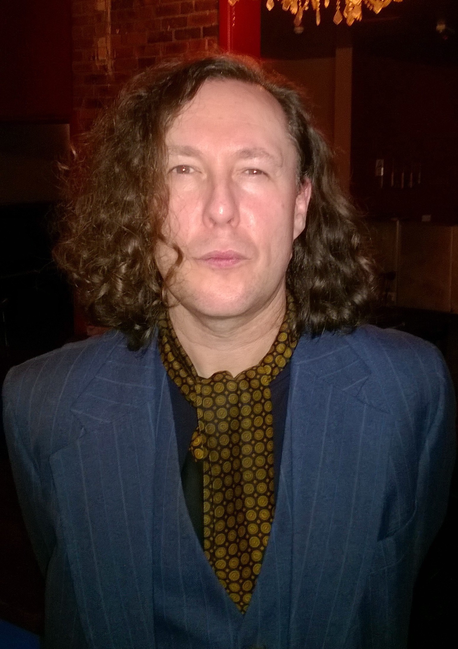 The singer Miles Hunt after a show in Wolverhampton, 5 April 2015. I took the picture myself.